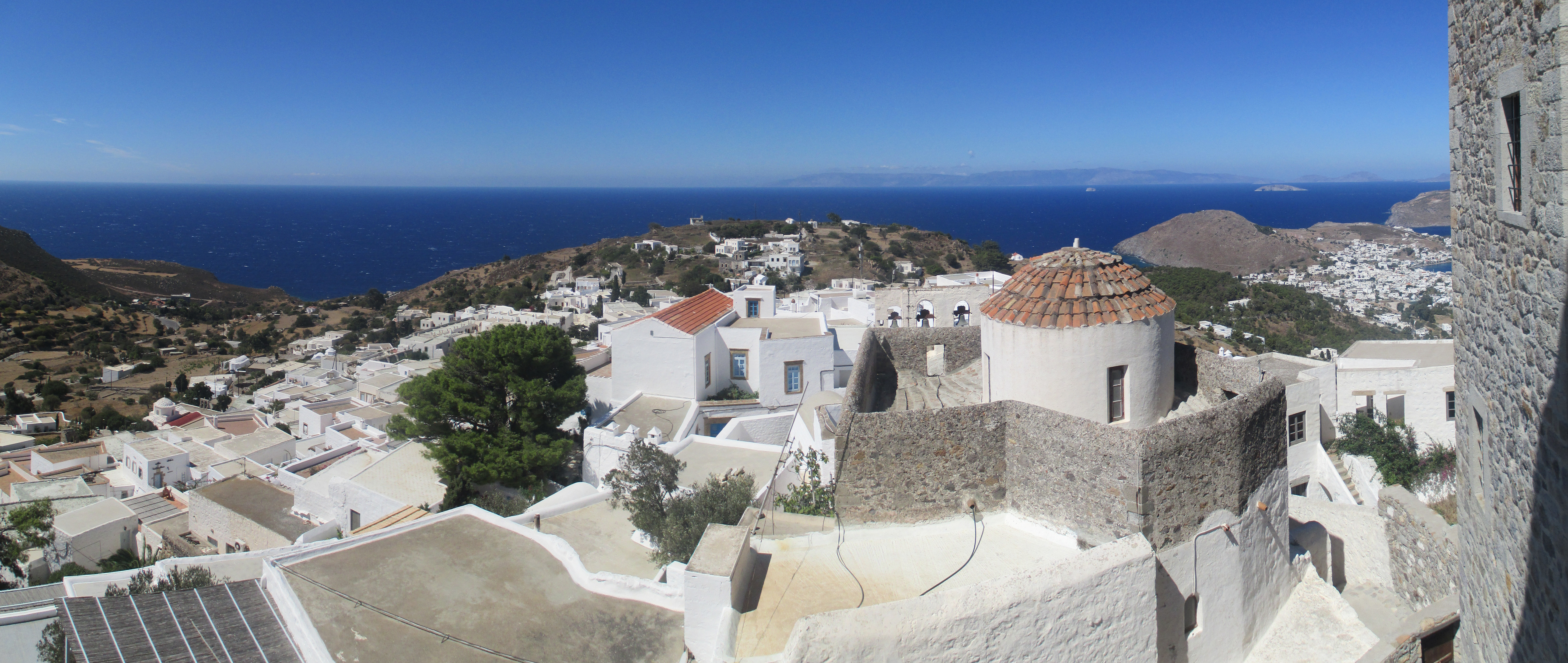 Panorama of Patmos, Greece, from Chora and the Monastery of Saint John the Theologian. In the front: buildings of the monastery. In the background: islands of Ikaria and Fourni.